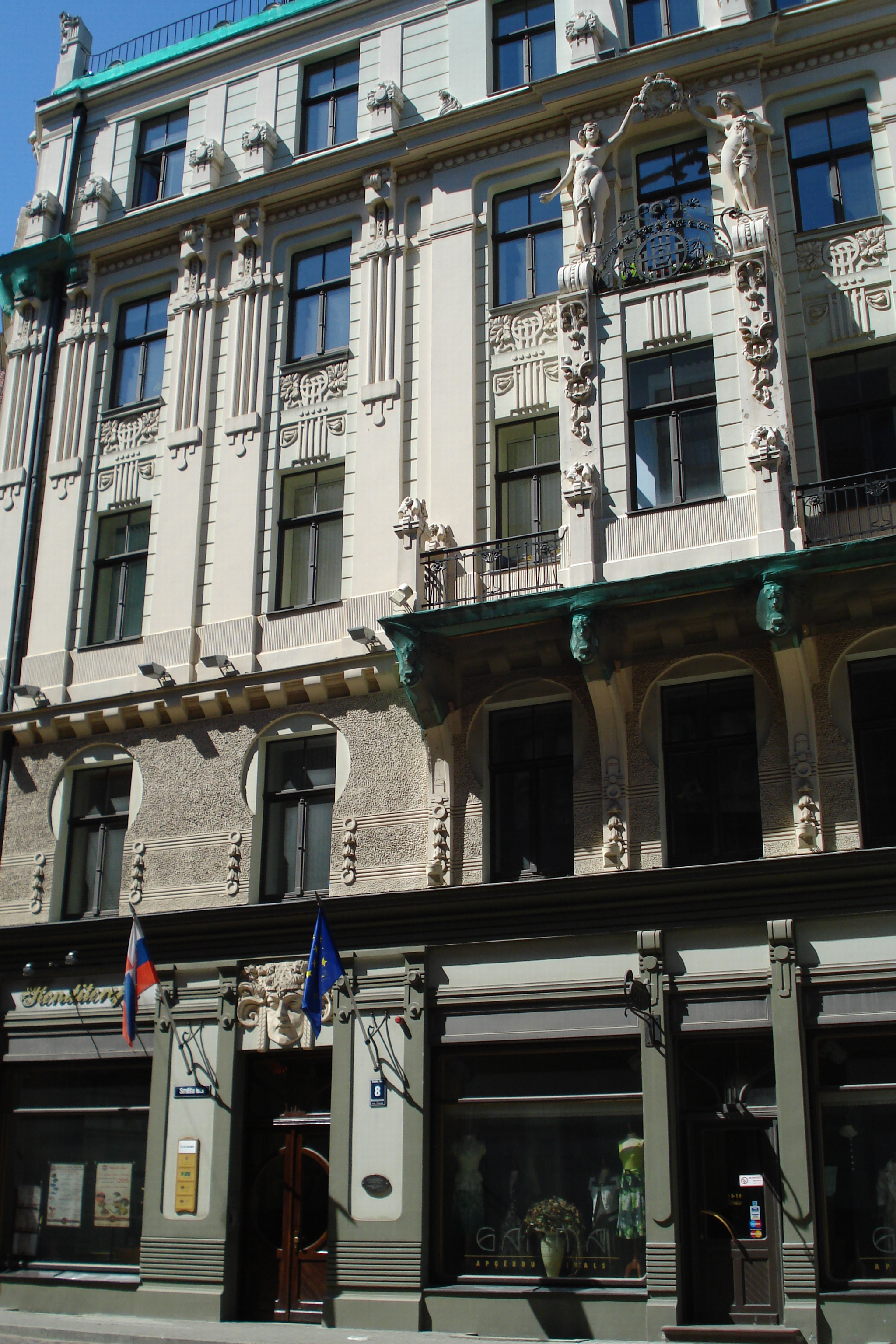 Smilšu iela 8 in Riga. 1902, arch: Heinrich Scheel - Friedrich Scheffel. Улица Смилшу 8 (1902), архитекторы Г. Шеель и Ф. Шеффель. Embassy of the Slovak Republic